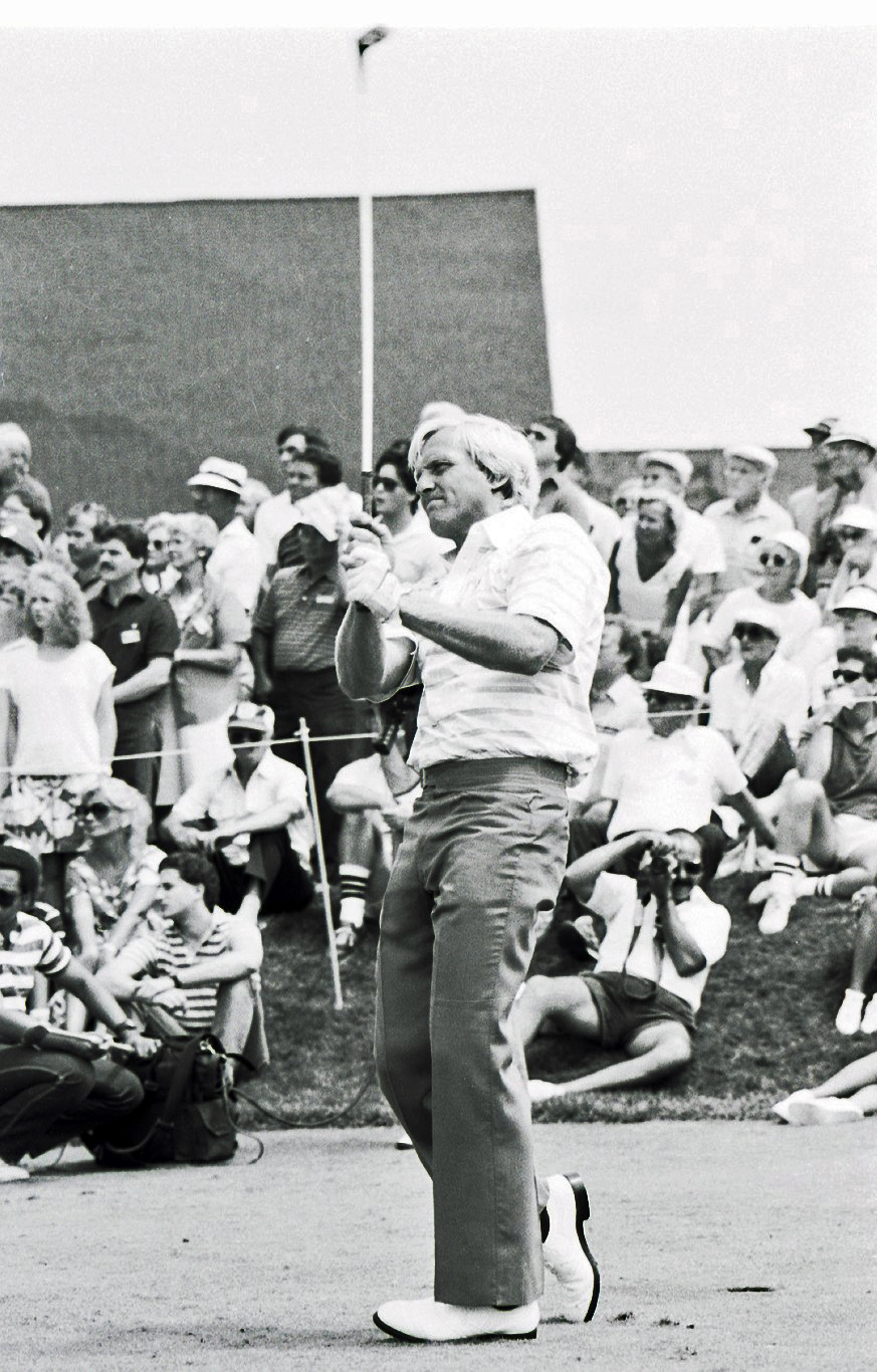 Greg Norman tees off in 1986